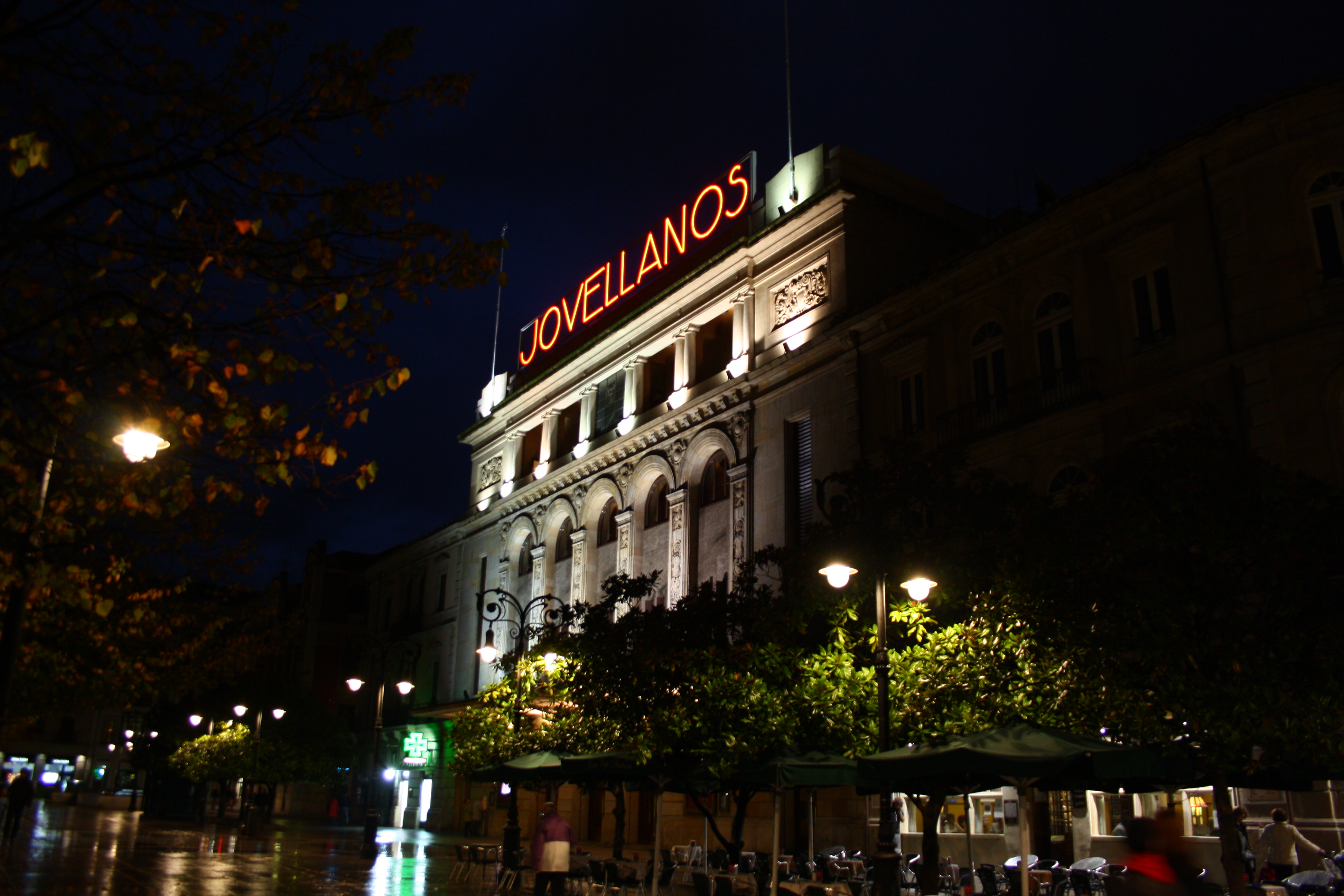 Paseo de Begoña de noche con vista del Teatro Jovellanos